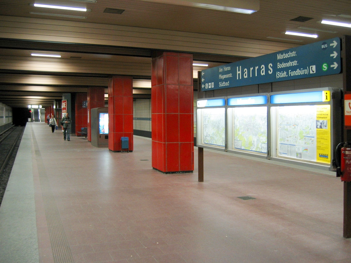 Munich subway station Harras (U6)